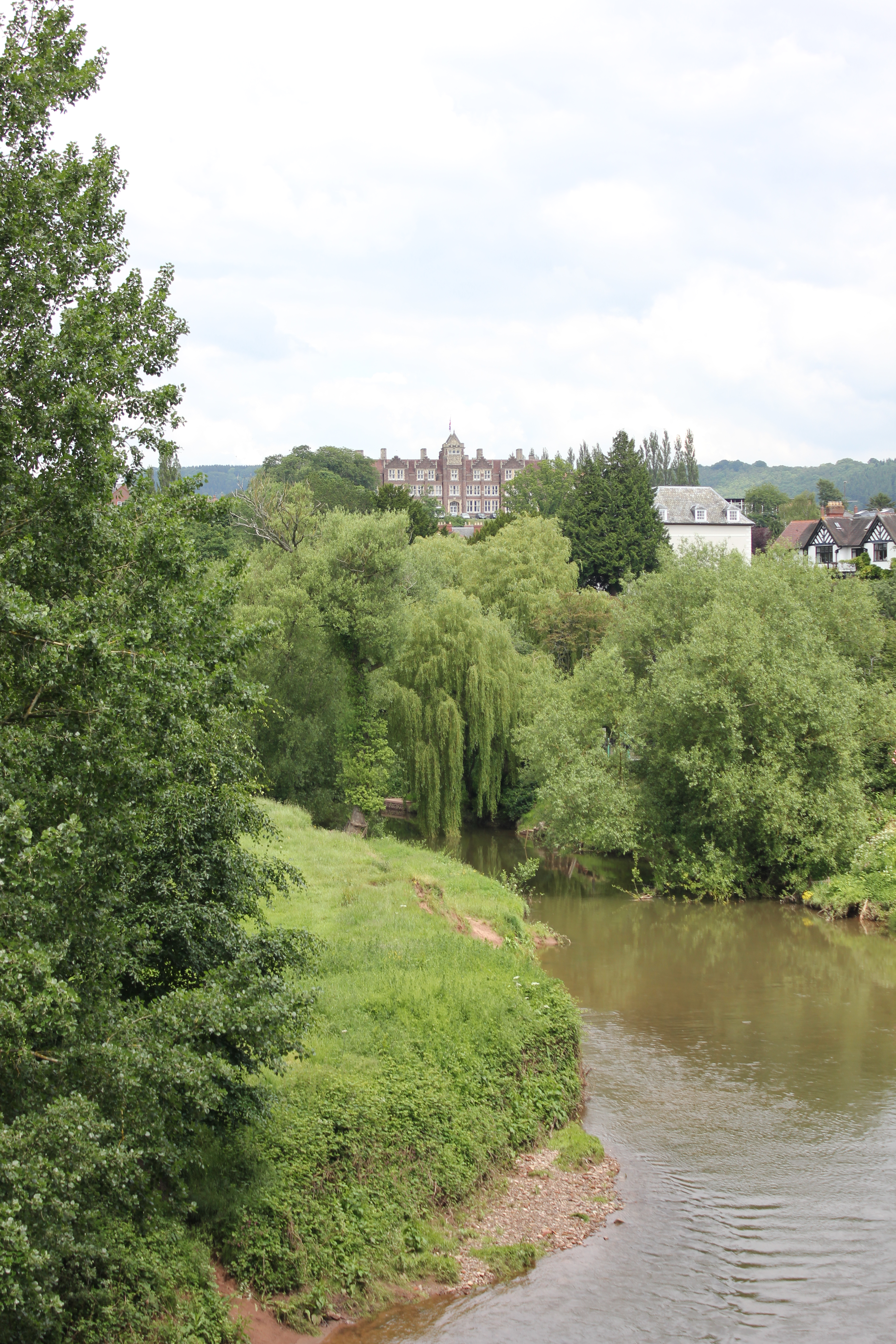 View of Haberdashers School for Girls from Monmouth town centre, river monnow in forground